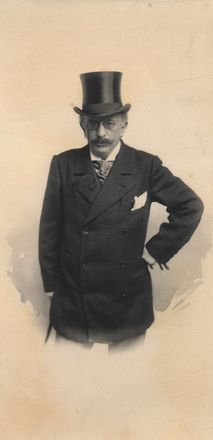 Photo of Edward Lubowski